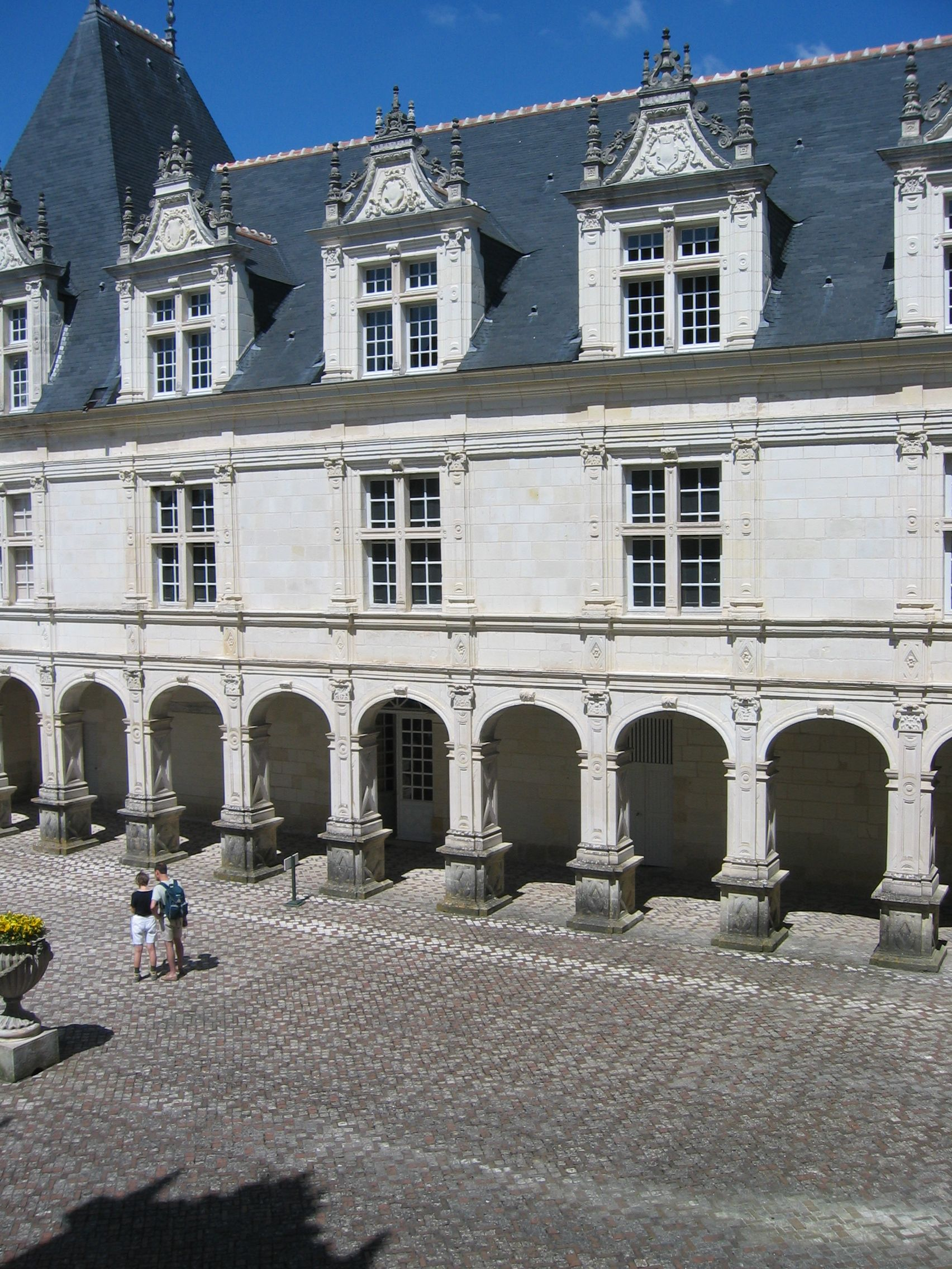 château de villandry yard This building is en partie classé, en partie inscrit au titre des Monuments Historiques. .